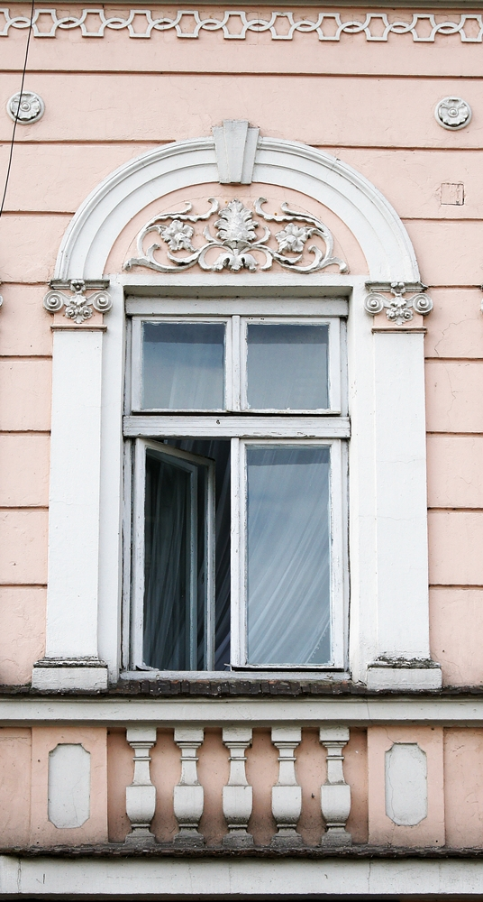 Rzeszów, Hotel du Cracovie, detail